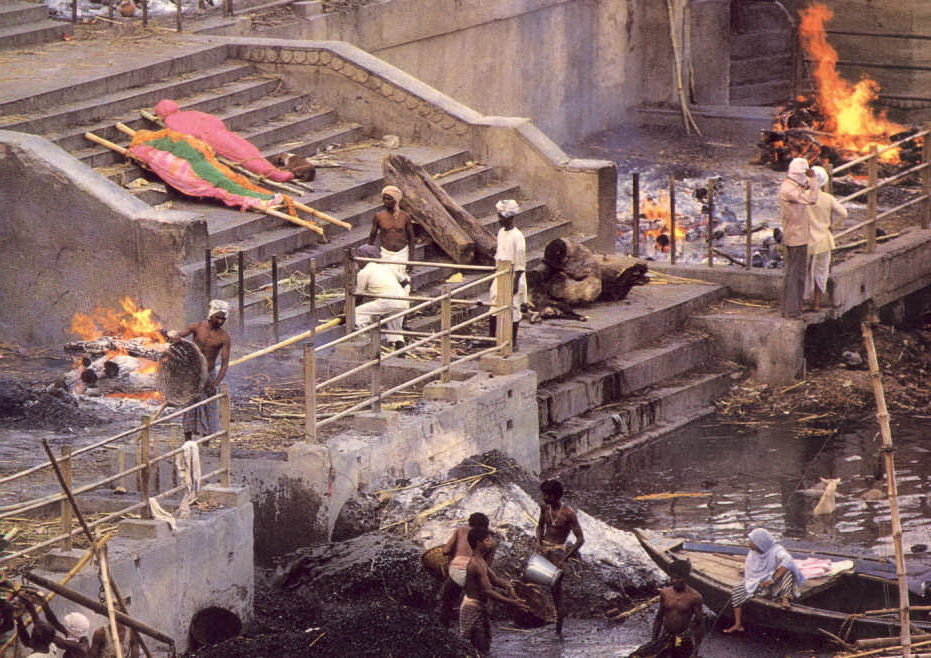 Cremation in Varanasi. Location: Ganges River, Varanasi